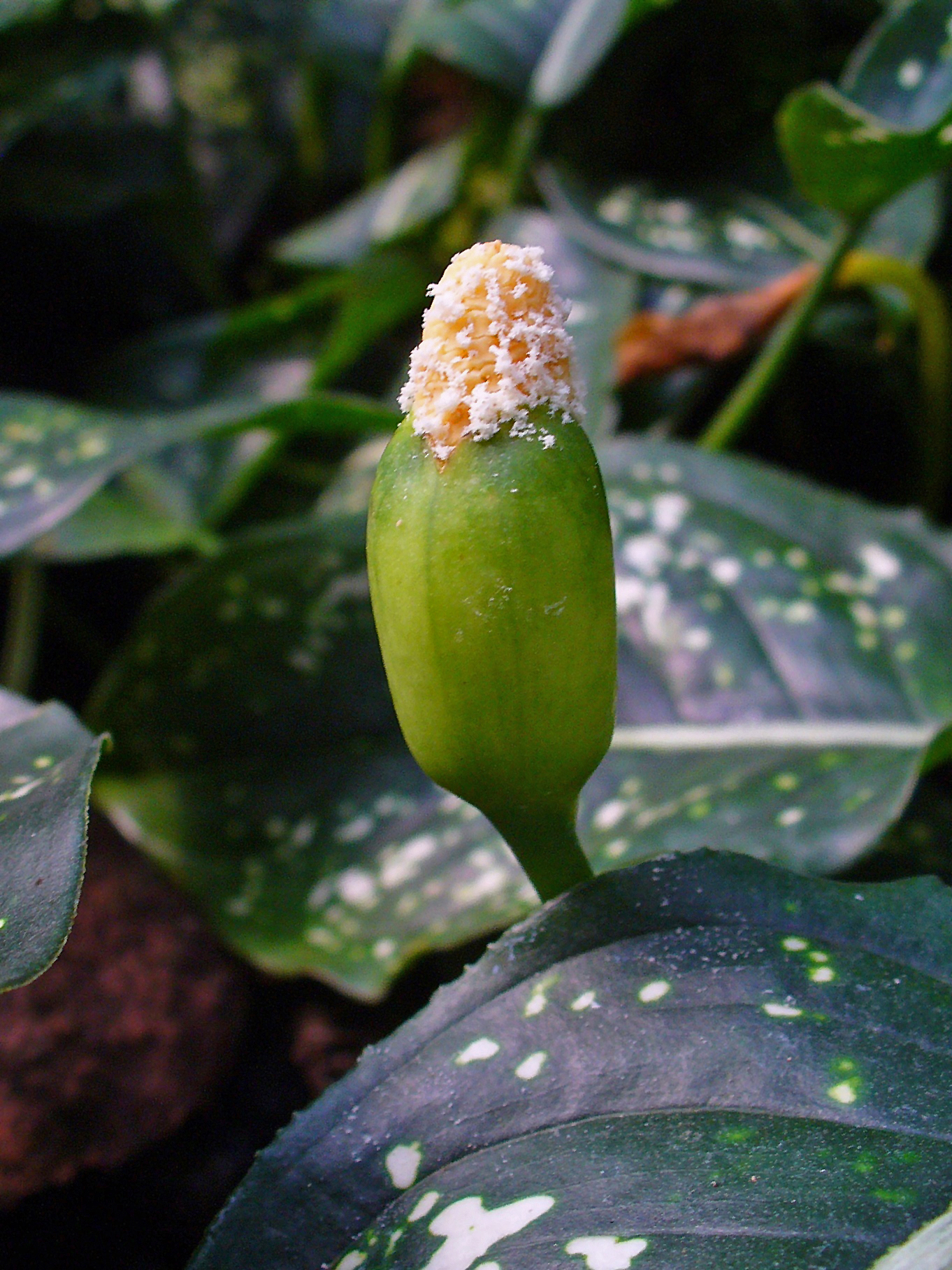 Aglaonema costatum, Araceae, Spotted Evergreen, inflorecence. Botanical Garden KIT, Karlsruhe, Germany.